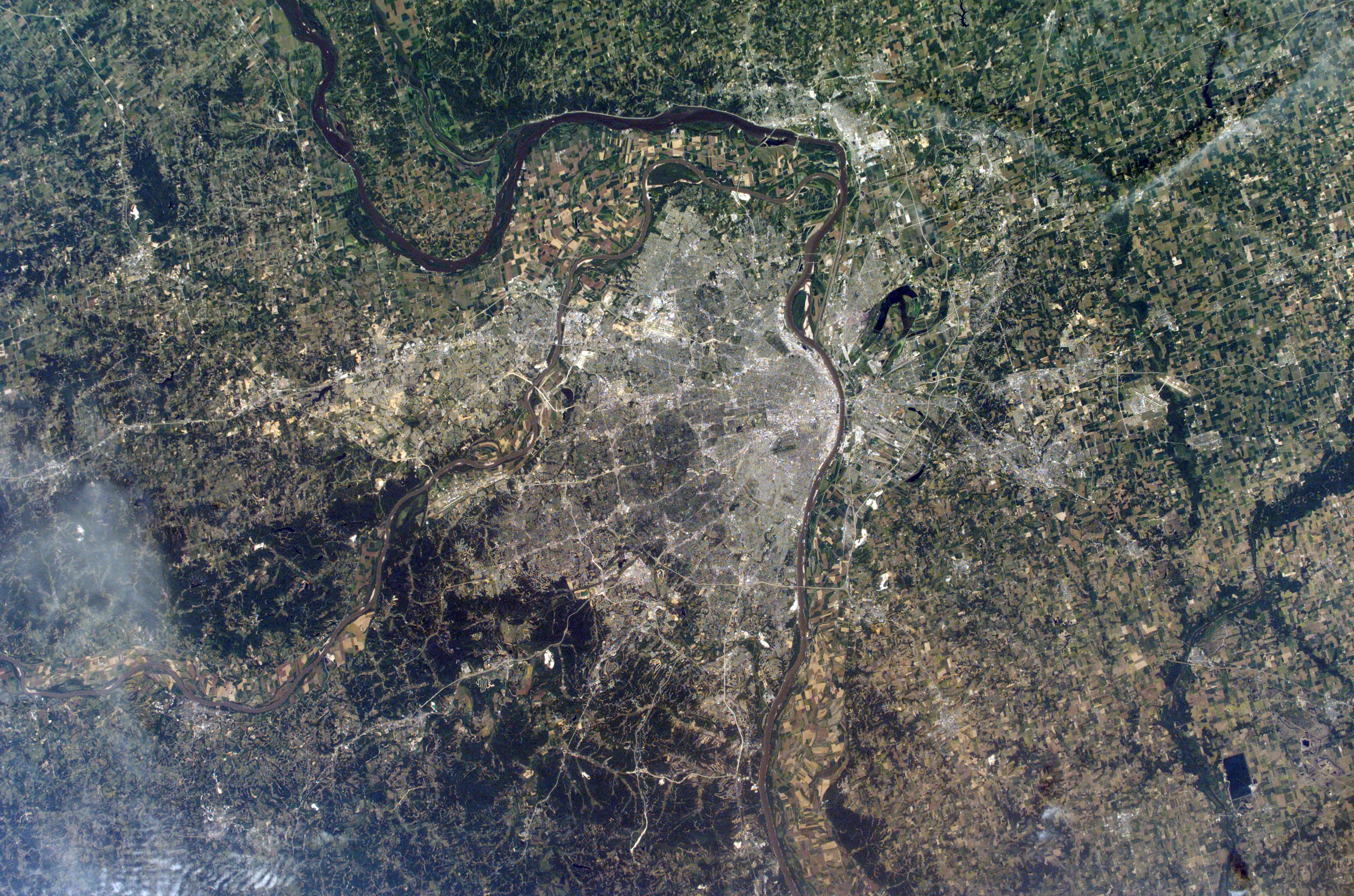 Greater St. Louis, 4 September 2002